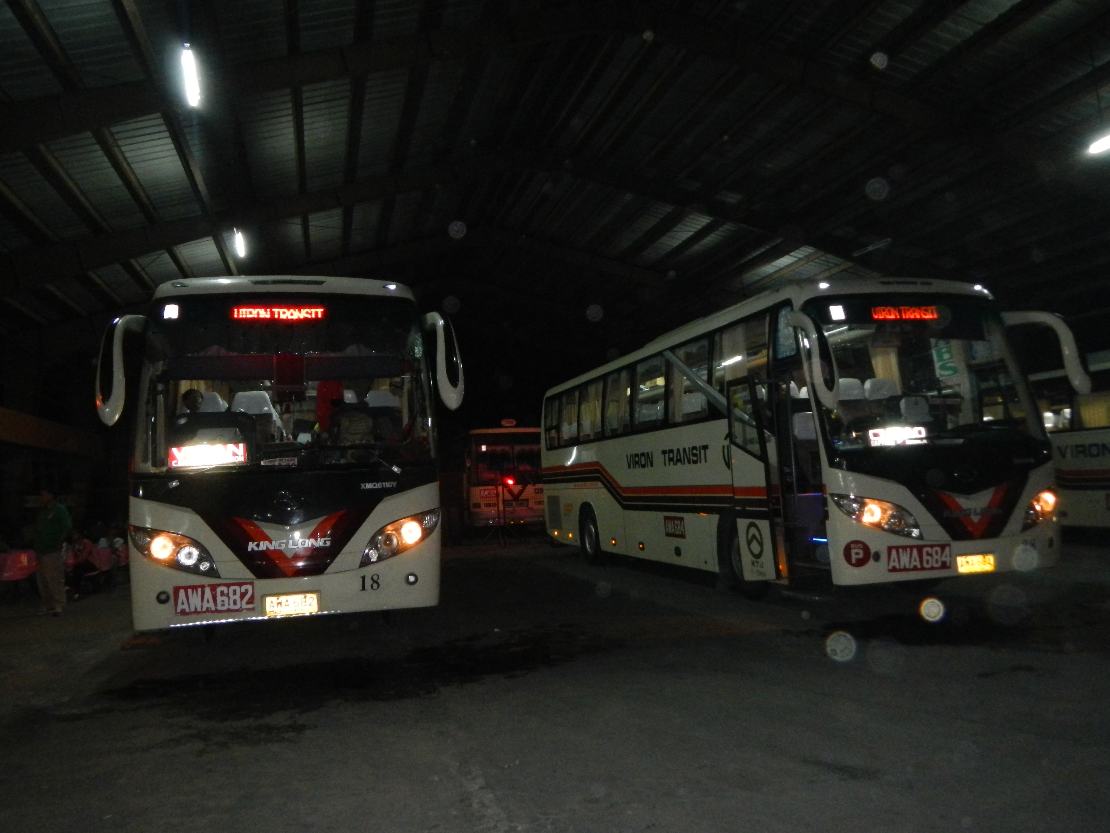 Viron Transit[1] Pozorrubio, Pangasinan Terminal